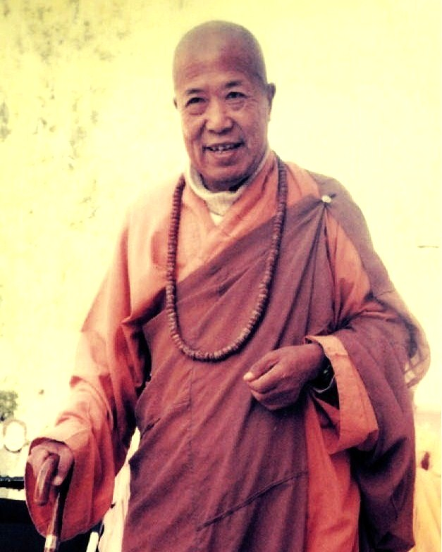 A picture of the Venerable Hsuan Hua, taken by my family, likely at Ukiah, California.